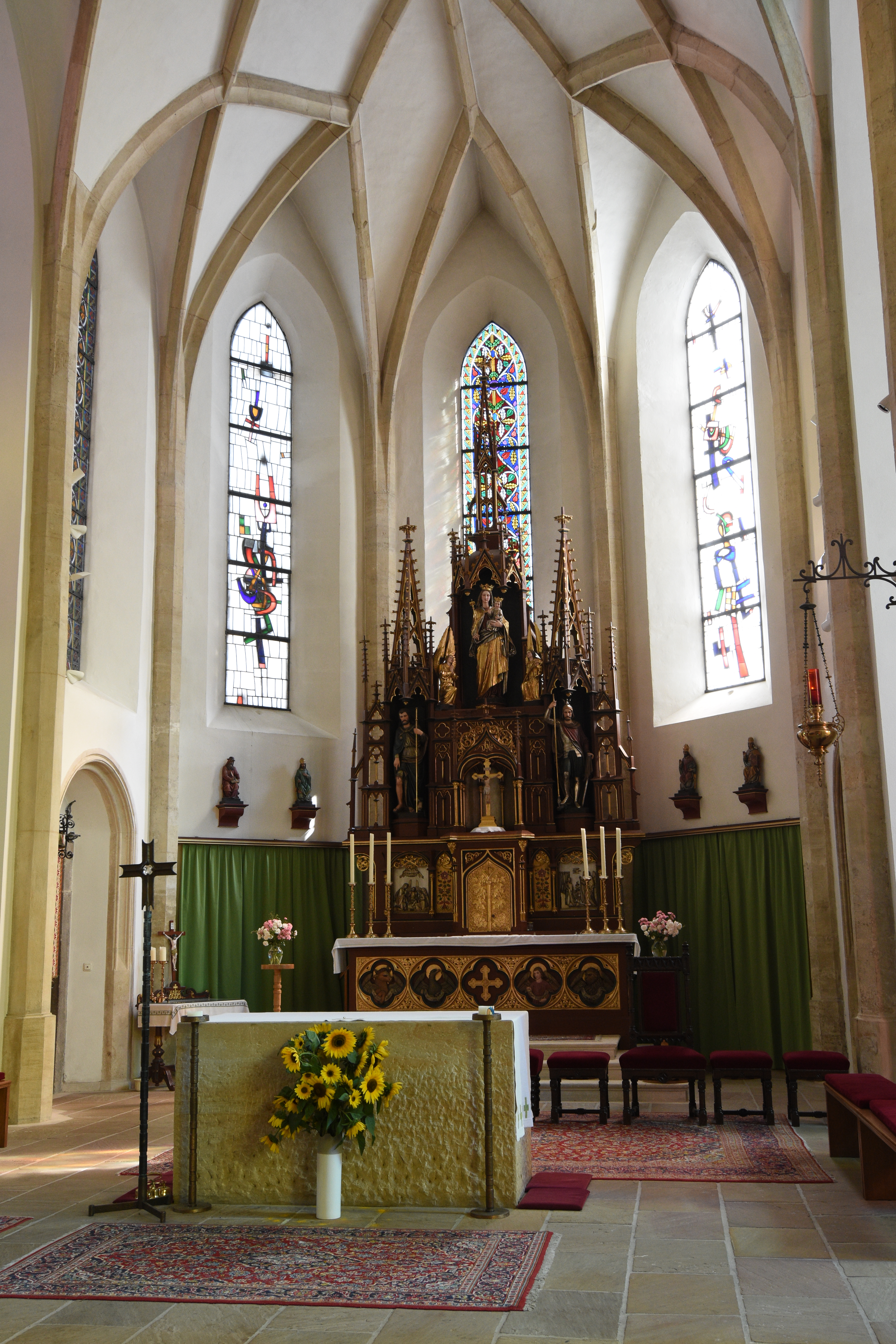 Saint Mary of the Angels Church Gnas Interior